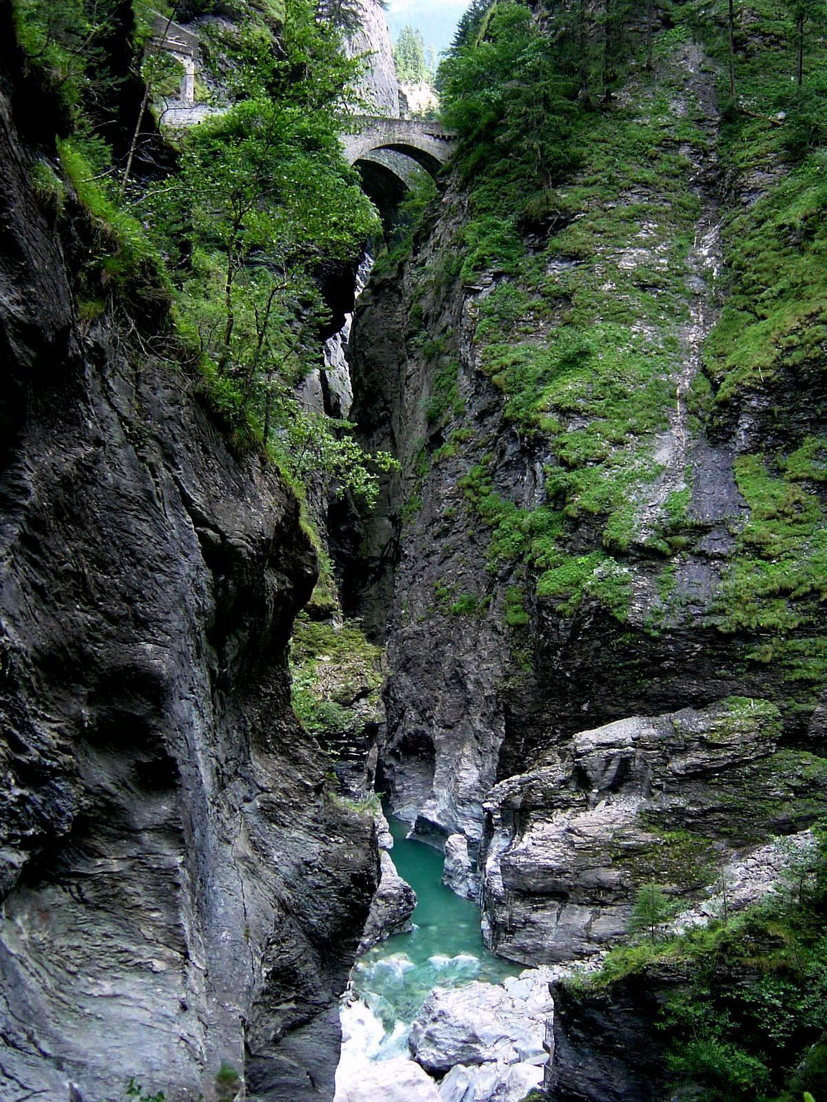 Via Mala gorge, near Thusis in Graubünden